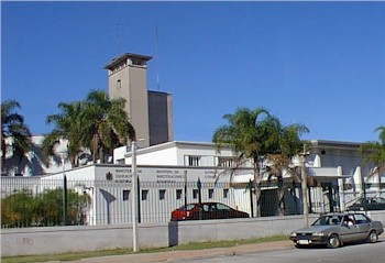 Biological Research Institute "Clemente Estable", in Montevideo, Uruguay.